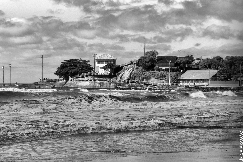 Beach in Matinhos, Paraná, Brazil.